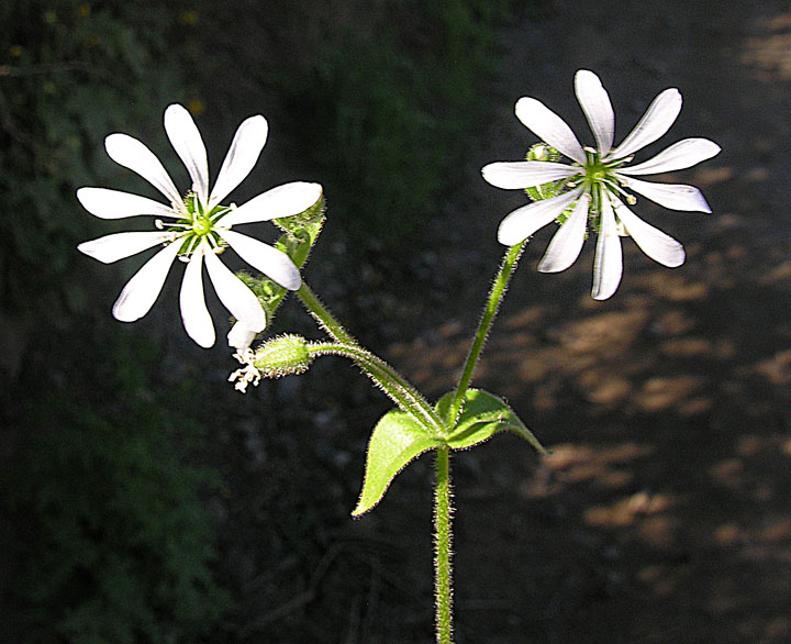 A Chilean Stitchwort known as Quilloi-quilloi. In context at